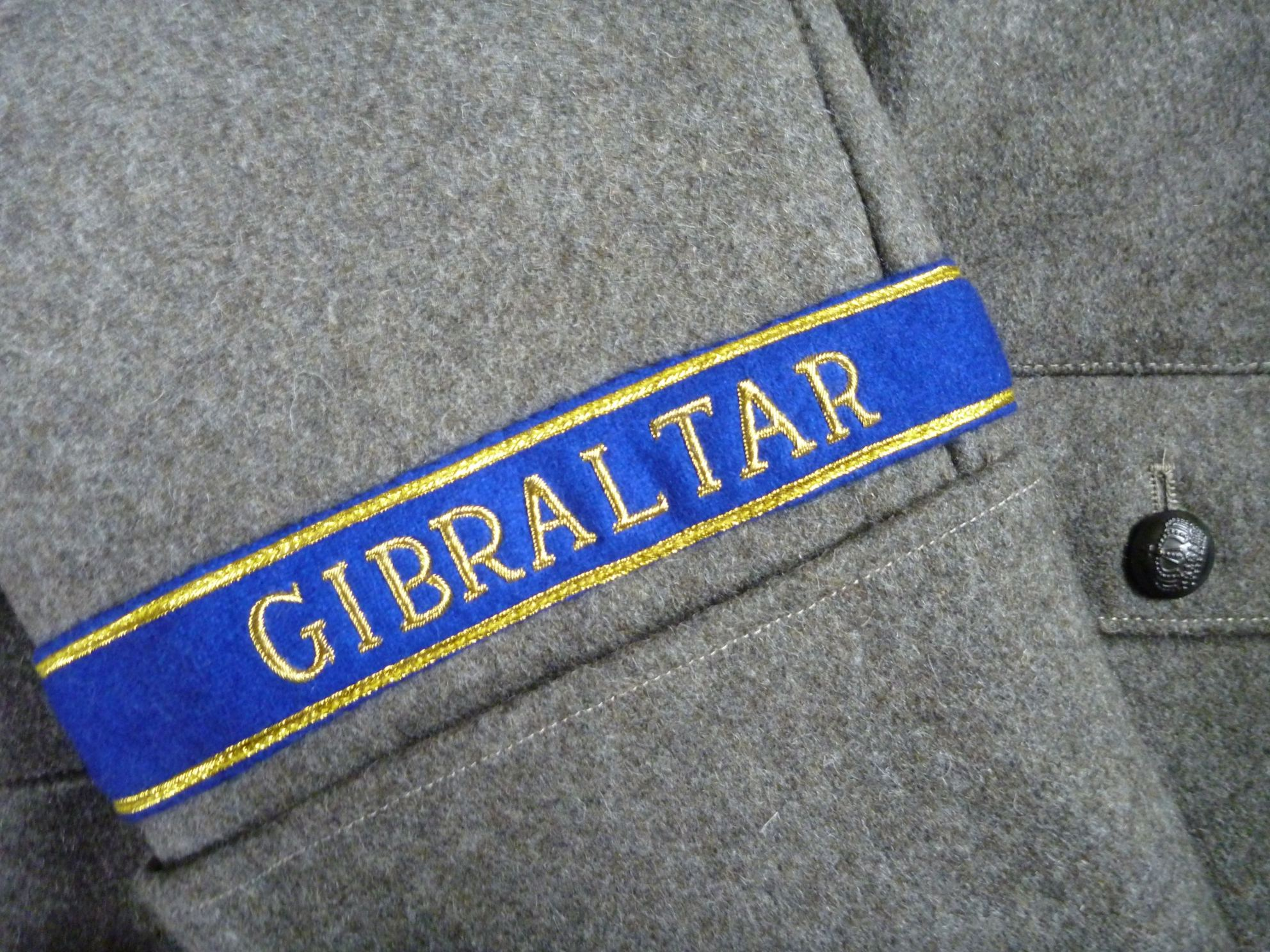 Officers cuff title GIBRALTAR